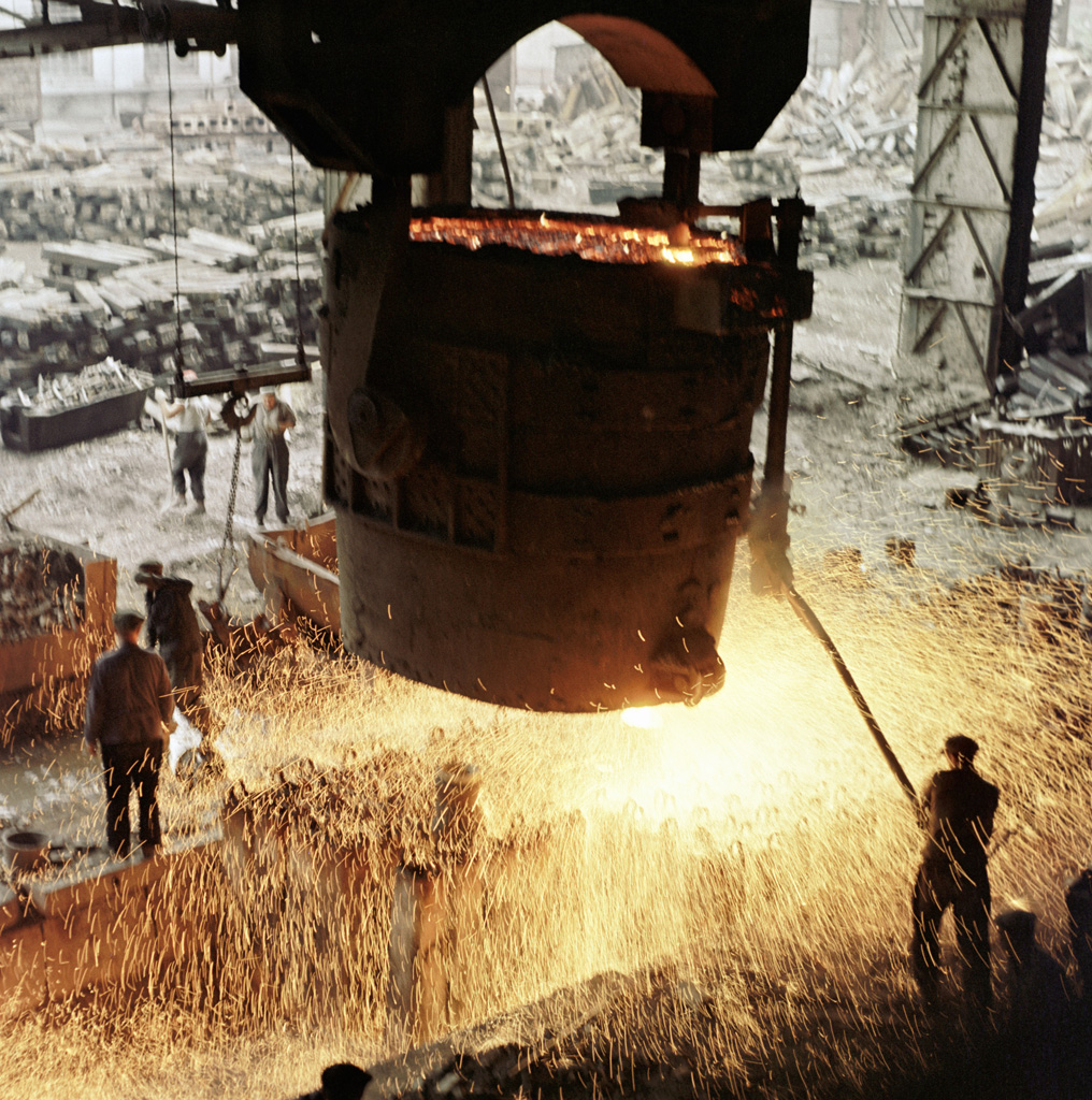 “Teeming operation in the blast furnace plant of the Kuibyshev Steel Works in Kramatorsk”. Teeming operation in the blast furnace plant of the Kuibyshev Steel Works in Kramatorsk.